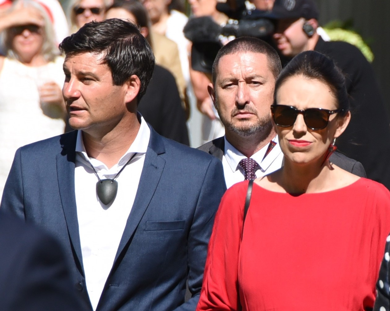 Jacinda Ardern and her partner, Clarke Gayford, attend reception at Government House, Auckland on Waitangi Day